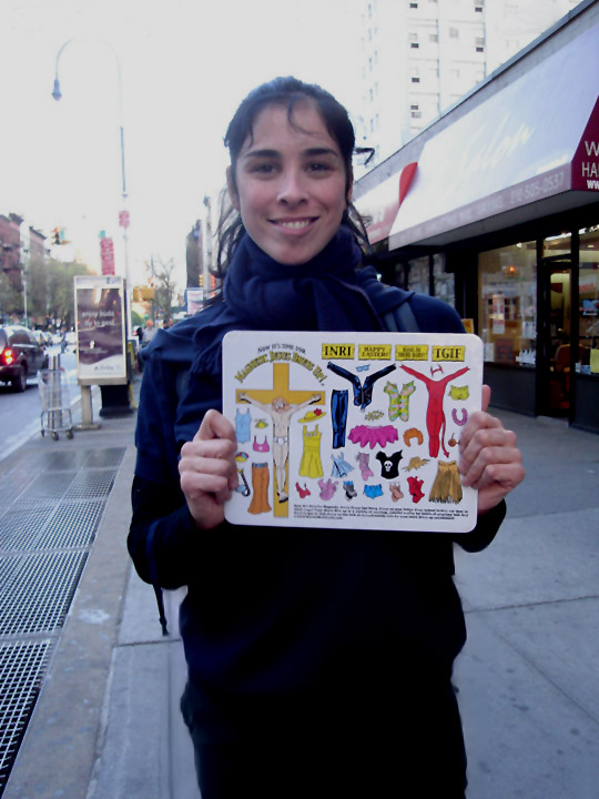 Sarah Silverman displays her new Jesus Dress Up magnet set, given to her as a gift from Normal Bob Smith, who says, "I gave her the set in passing and she was happy to pose for a picture with them." The location is 14th Street & 1st Avenue, in New York City's East Village of Manhattan.